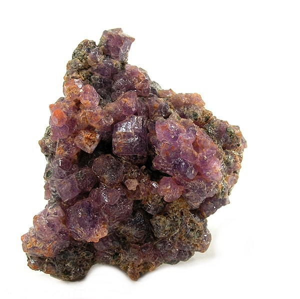 Coquimbite Locality: Calf Mesa, San Rafael District (San Rafael Swell), Emery County, Utah, USA (Locality at ) Superb, sharp crystals to 1 cm, translucent, look like purple corundum. Instead they are this rare iron sulfate. This strange mineral is rarely found in specimens larger than a thumbnail or a crust with small crystals. Here is a small cab, with rich purple color (the lighting makes it look more even than in person, where I admit the color is more splotchy in appearance). Still, it is not unattractive and this is the best Utah specimen of the mineral I have seen for sale. Not stable in high humidity, I am told (this piece has clearly lasted many decades already, so it is not highly unstable, either). Marty's number on this was 1718 , indicating an early acquisition date. 6.7 x 5.2 x 2.5 cm